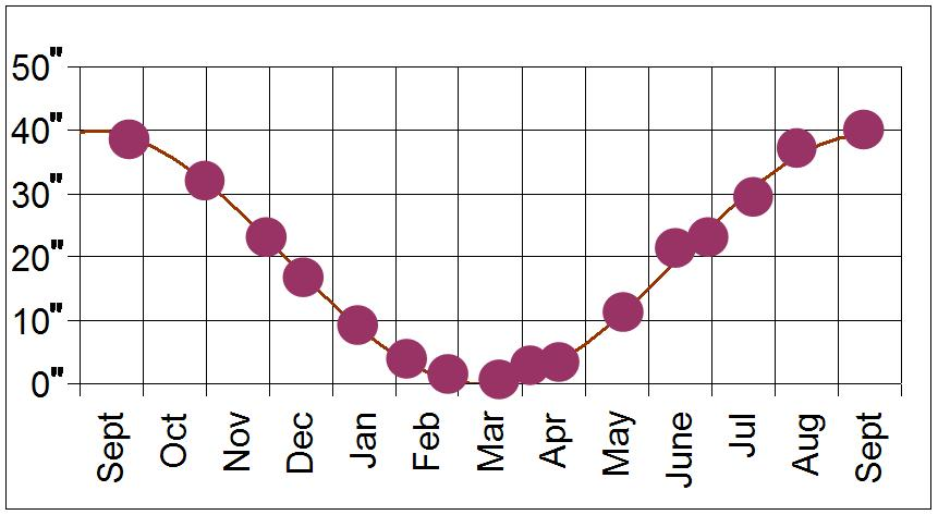 Facsimile of Bradley;s observations of gamma-Draconis. Original data in Special Relativity by A. P. French, p. 43